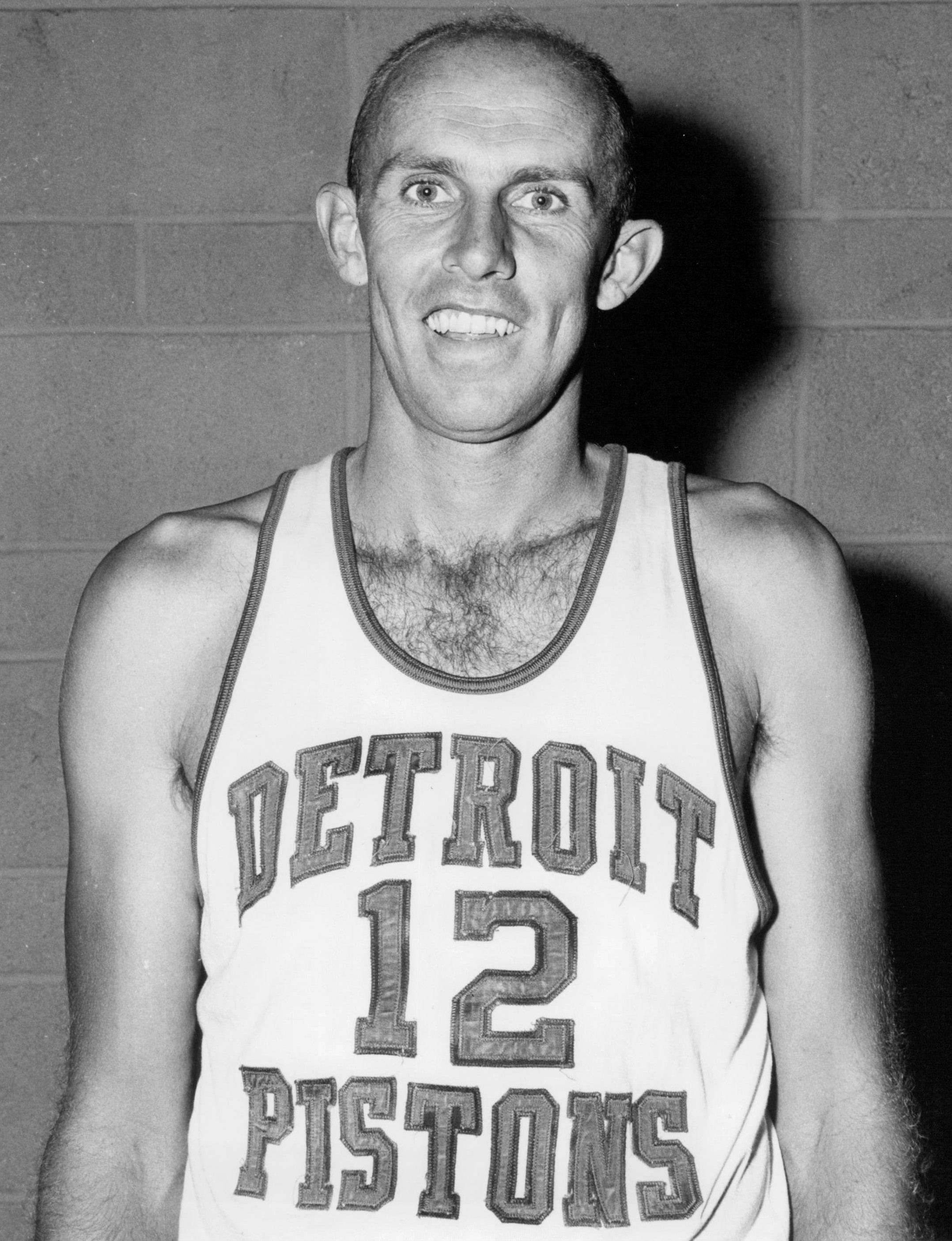 Professional basketball player George Yardley